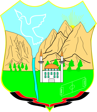 Грбот на село Пршовце, тетовско